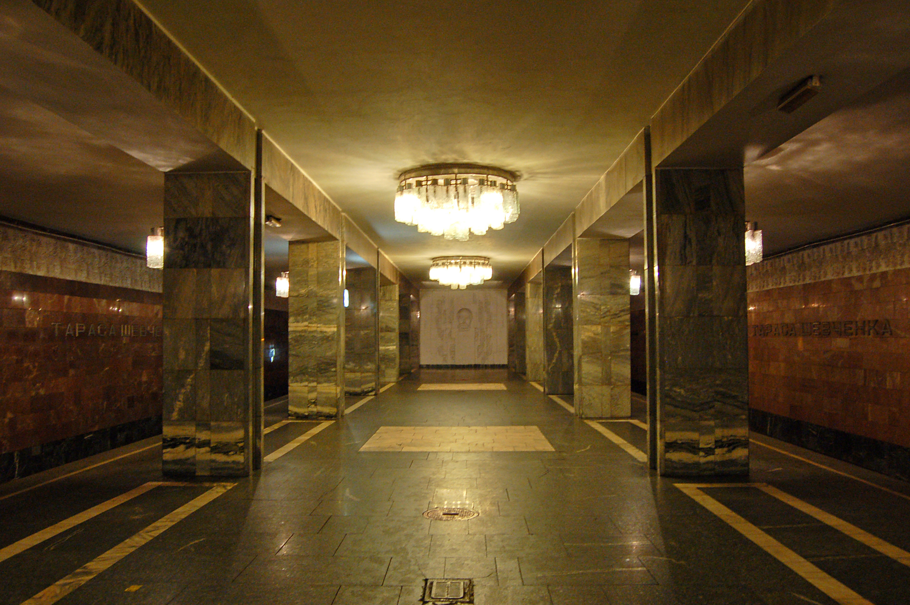 "Tarasa Shevchenka" metro station in Kiev, Ukraine